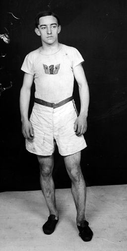 Johnny Hayes Chicago Daily News negatives collection, SDN-007293. Courtesy of the Chicago Historical Society. Taken in 1909 (